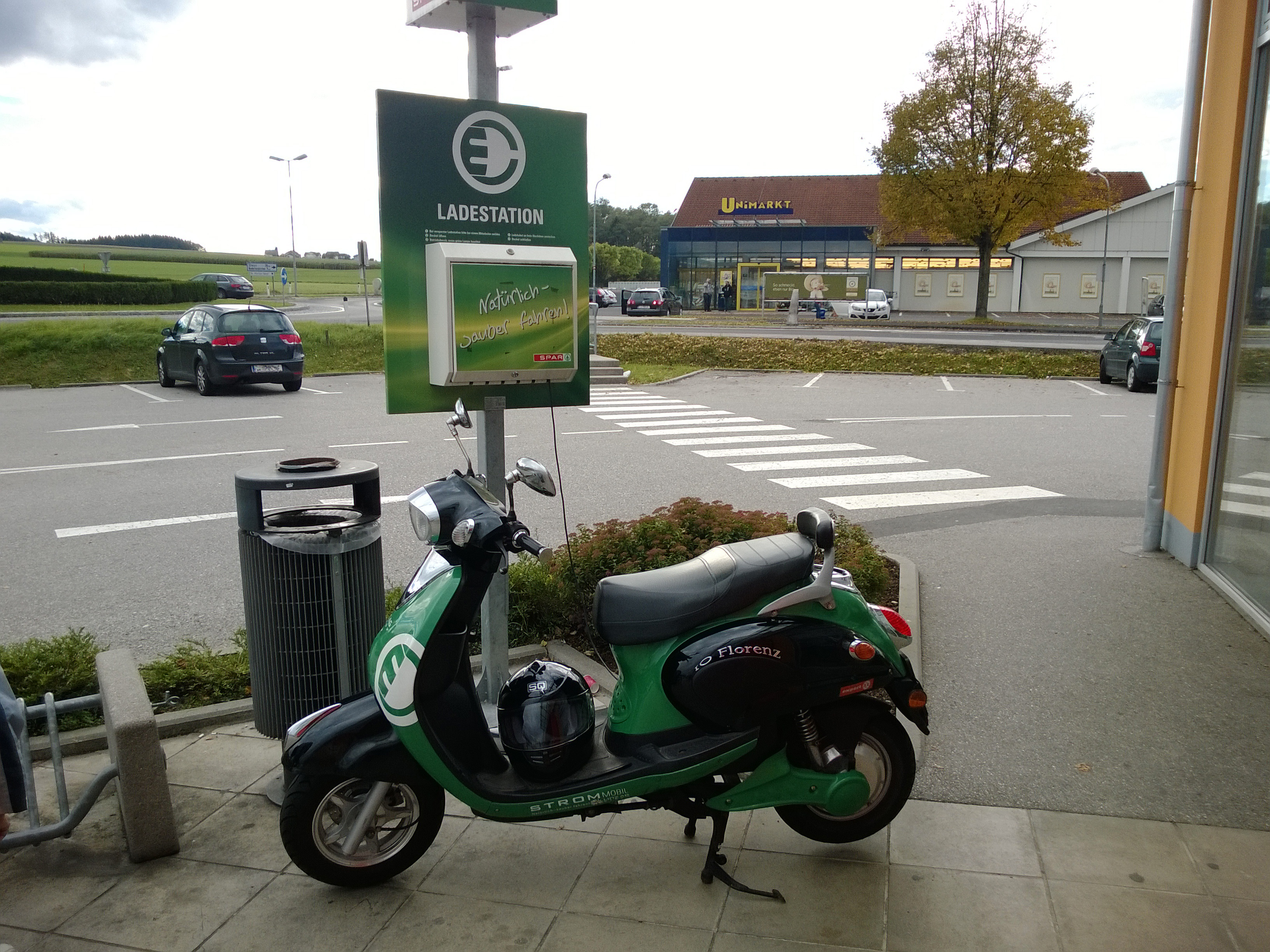 Electric scooter IO Florence (special model of Linz AG) at a public charging station